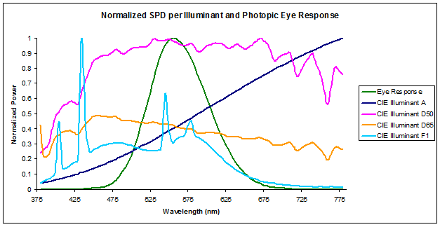 Normalized SPD over visual spectrum of CIE Illuminants and the photopic visual response for reference.